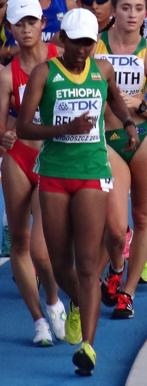 2016 IAAF World U20 Championships in Bydgoszcz, 10000m walk women